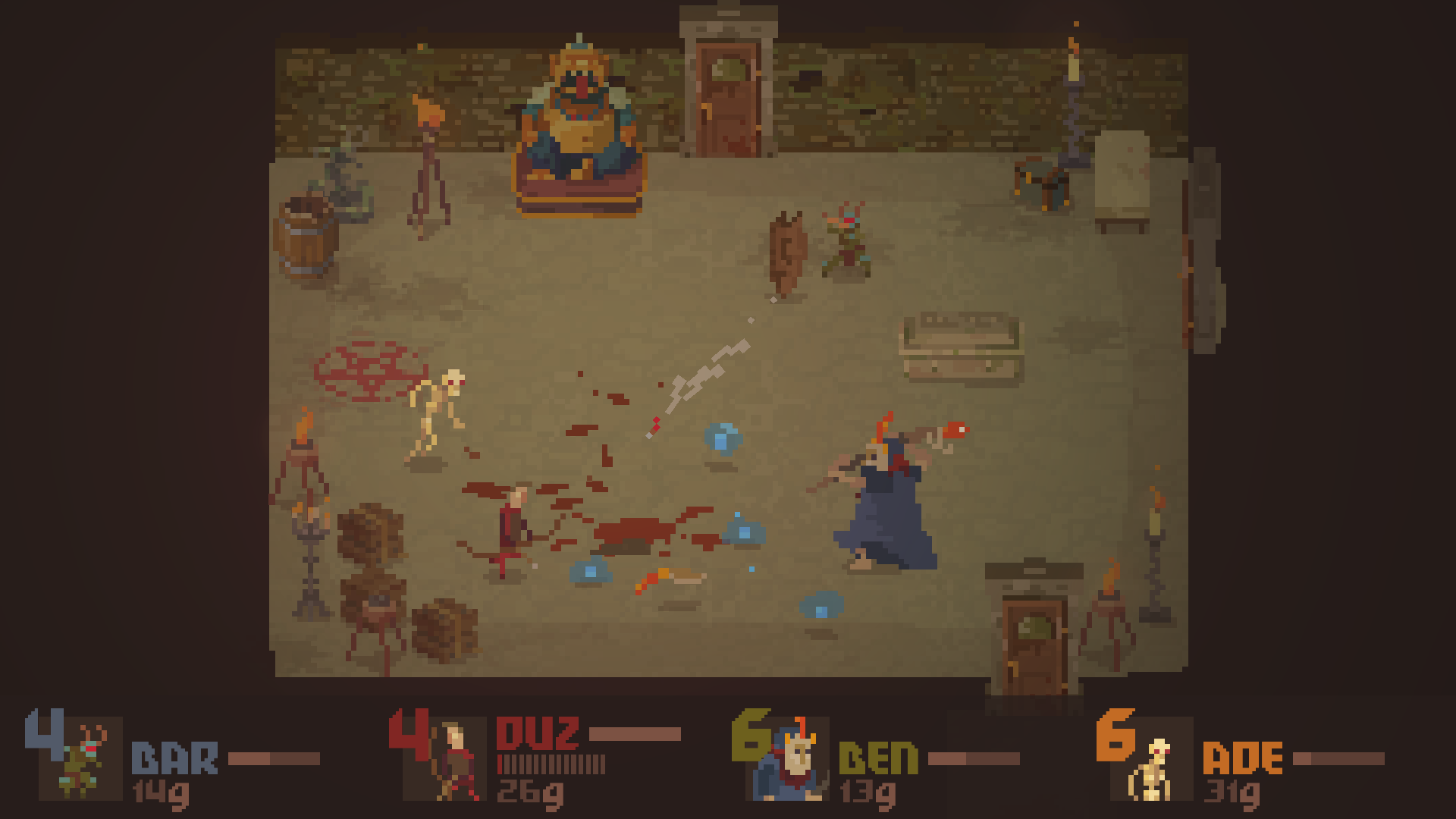 Screenshot from Crawl